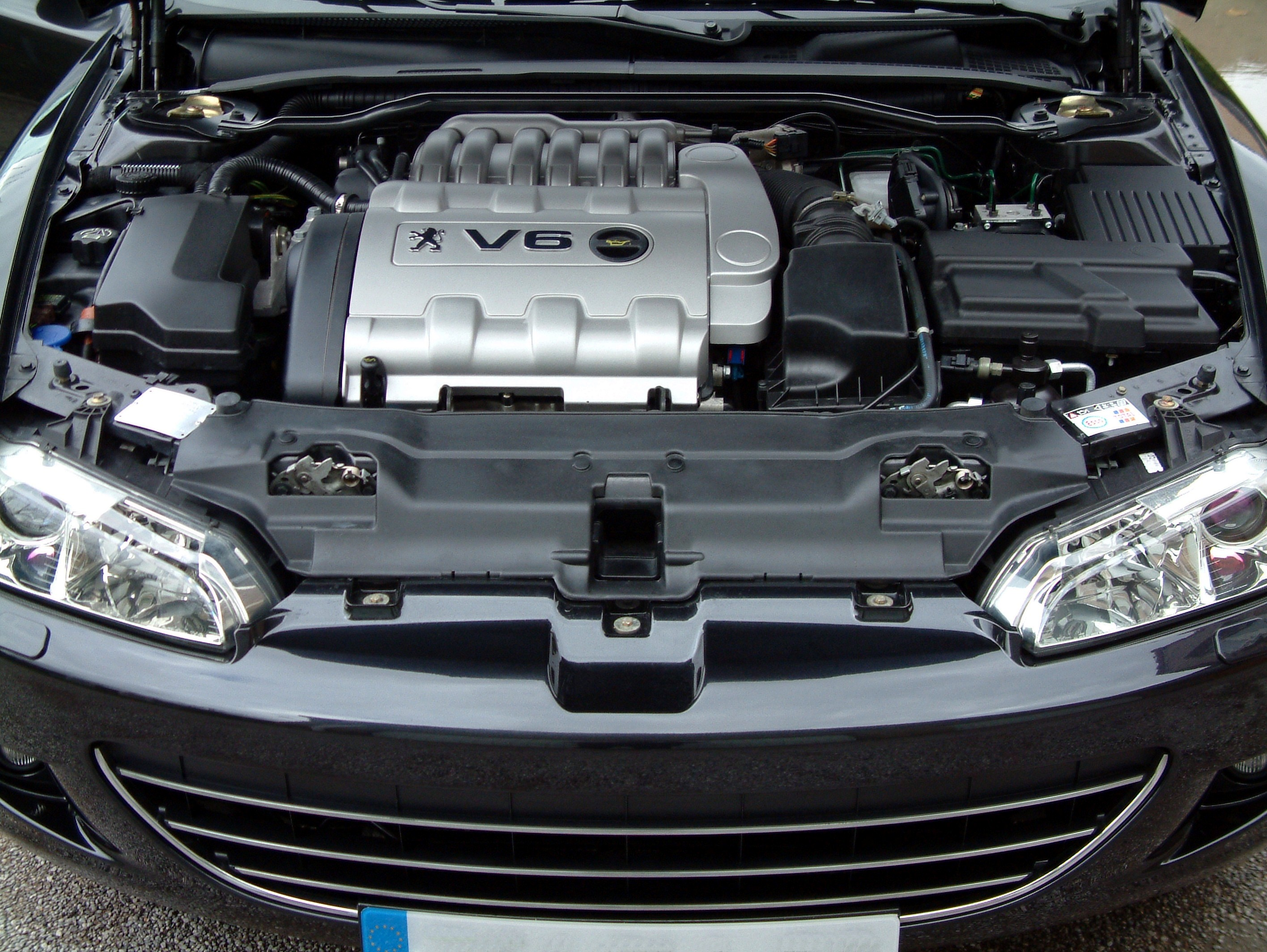 ES9J4S V6 Engine in Peugeot Coupé 406 phase2.